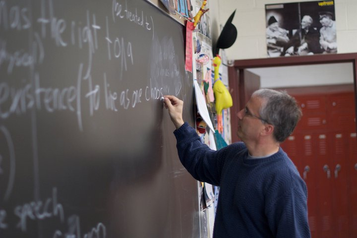 Christopher Phillips in New Jersey 2008